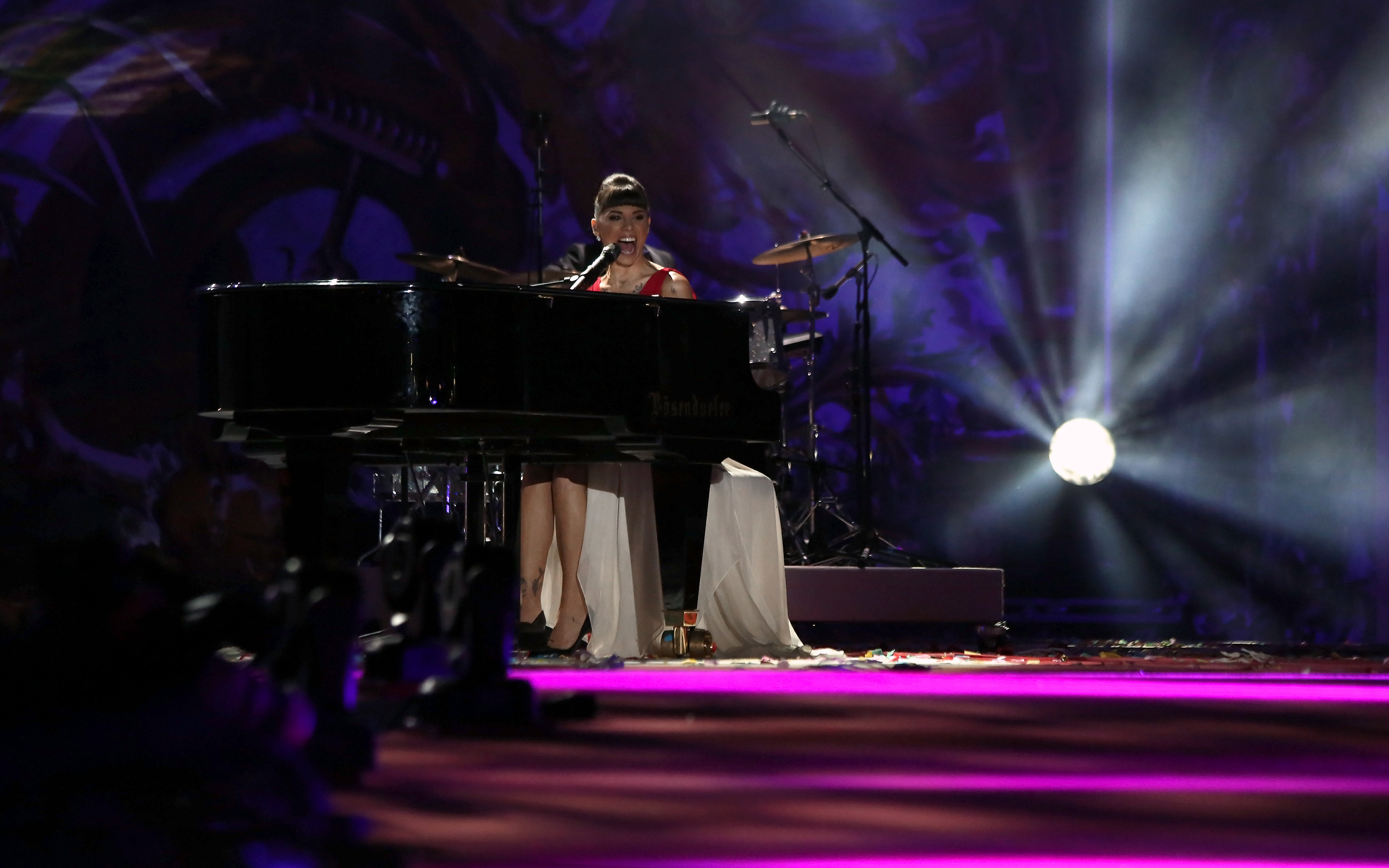 Christina Perri performing at the opening show of Life Ball 2014 at the city hall of Vienna, Vienna, Austria.